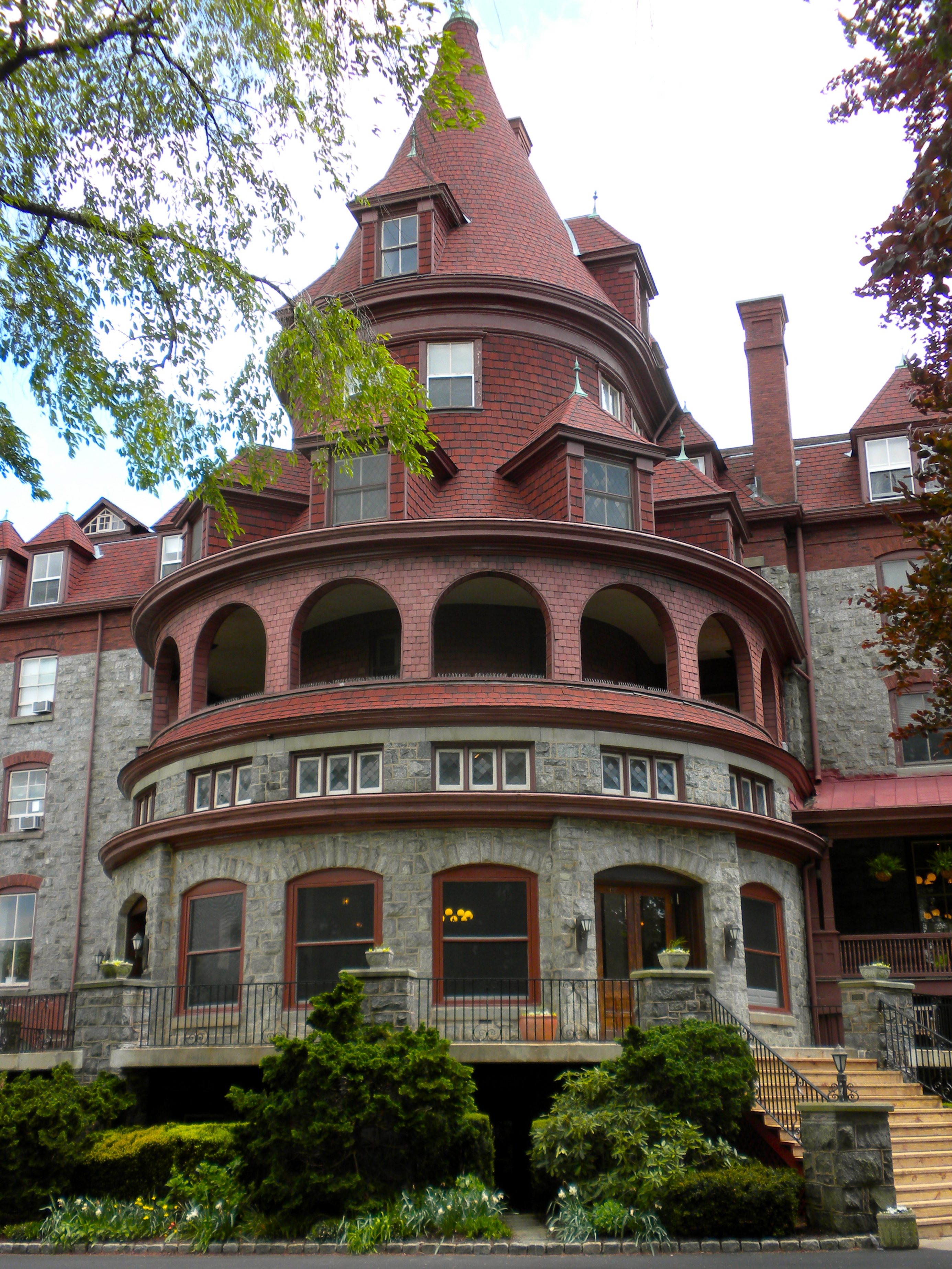 Bryn Mawr Hotel on the NRHP since April 27, 1979. Across from the College on Morris and Montgomery Avenues, Bryn Mawr, Pennsylvania. Pre-dates the College was used as a Hotel for summer vacationers outside Philadelphia, built by the Pennsylvania Railroad. Used as a school since before 1900 called the Baldwin School.